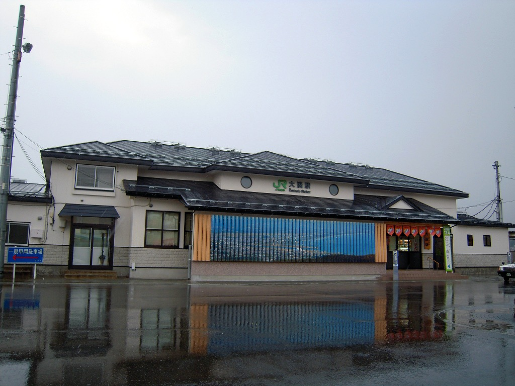 JR East Ominato line Ominato station (Mutsu,Aomori)